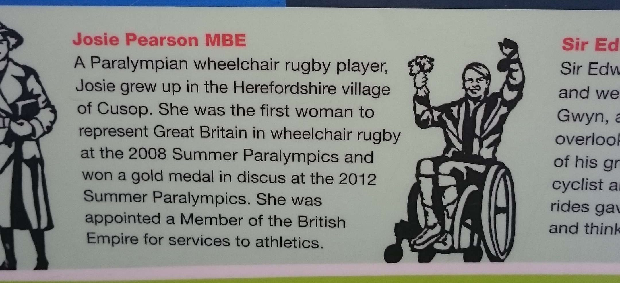 Portrait bench plaque description on Josie Pearson MBE